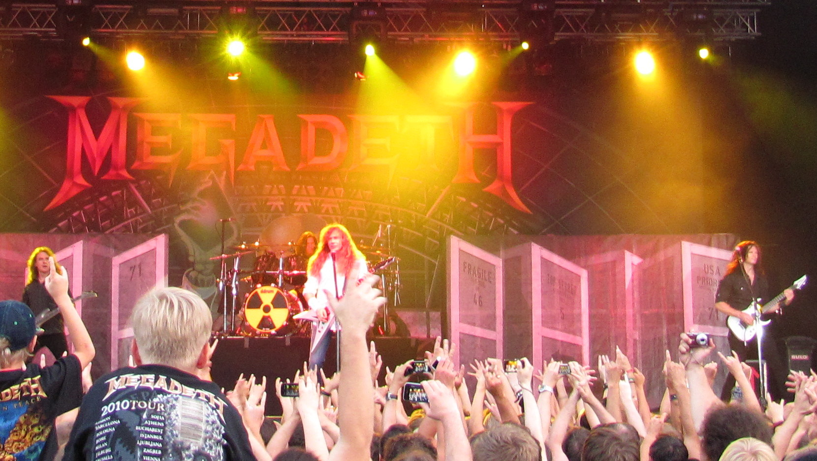 Megadeth at the beginning of concert in Haapsalu